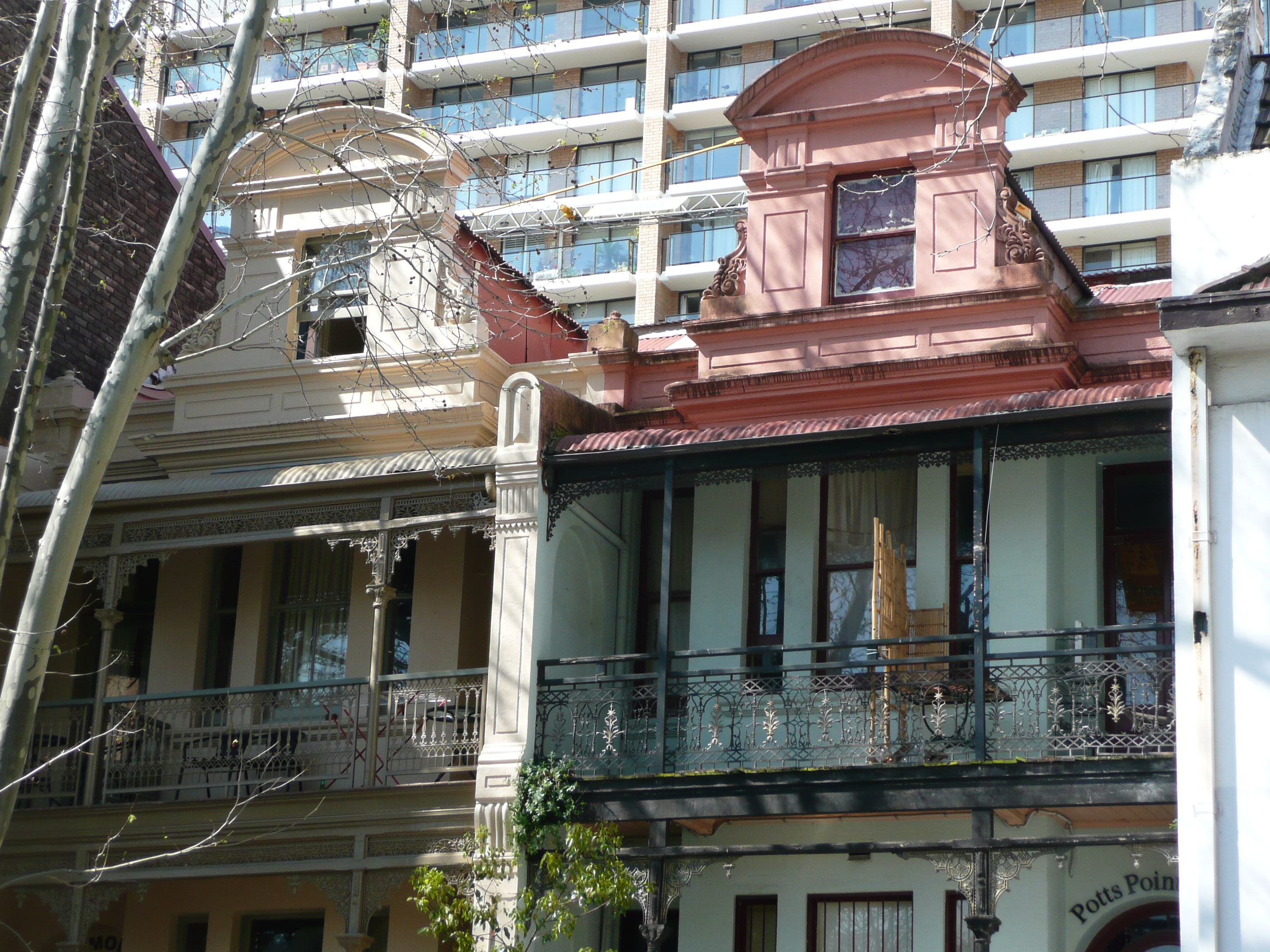 Terraced houses in Victoria Street, Potts Point, Sydney, New South Wales, Australia